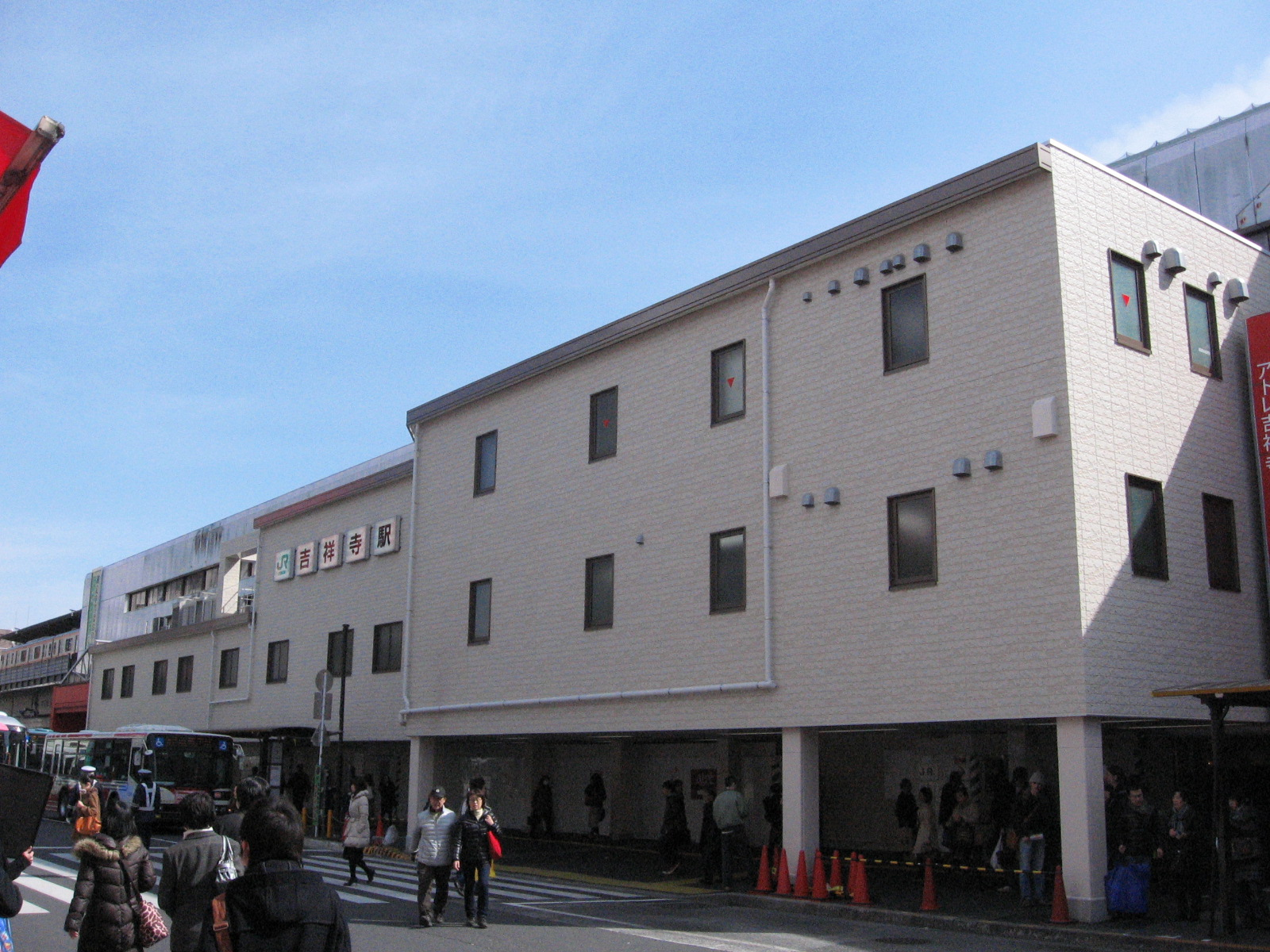 The north side of JR Kichijoji Station